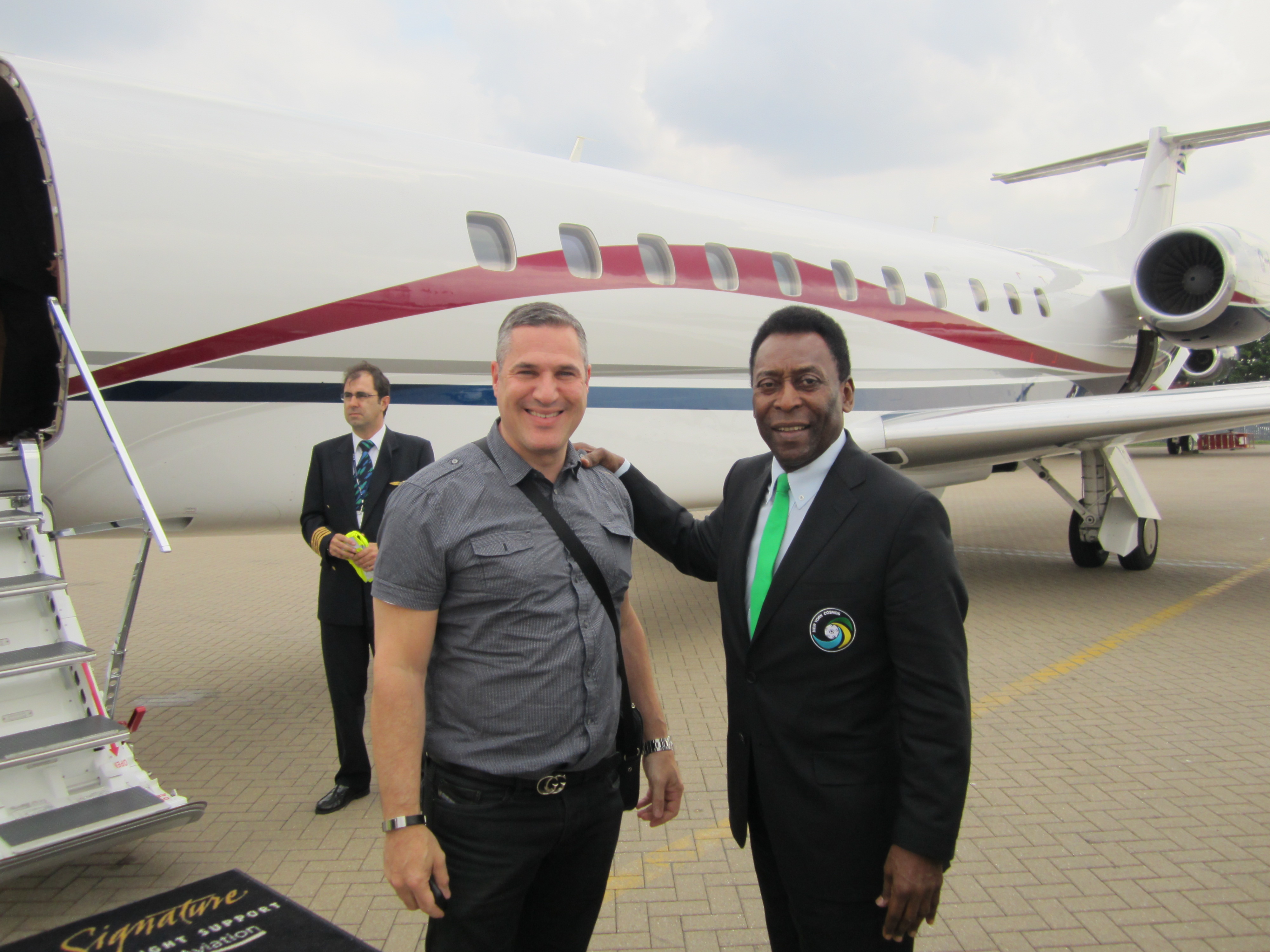 This is a picture of Brazilian soccer star Pelé with his immigration lawyer, Michael Wildes. The picture was taken in April 2014 after Wildes obtained an O-1 visa for Pelé.